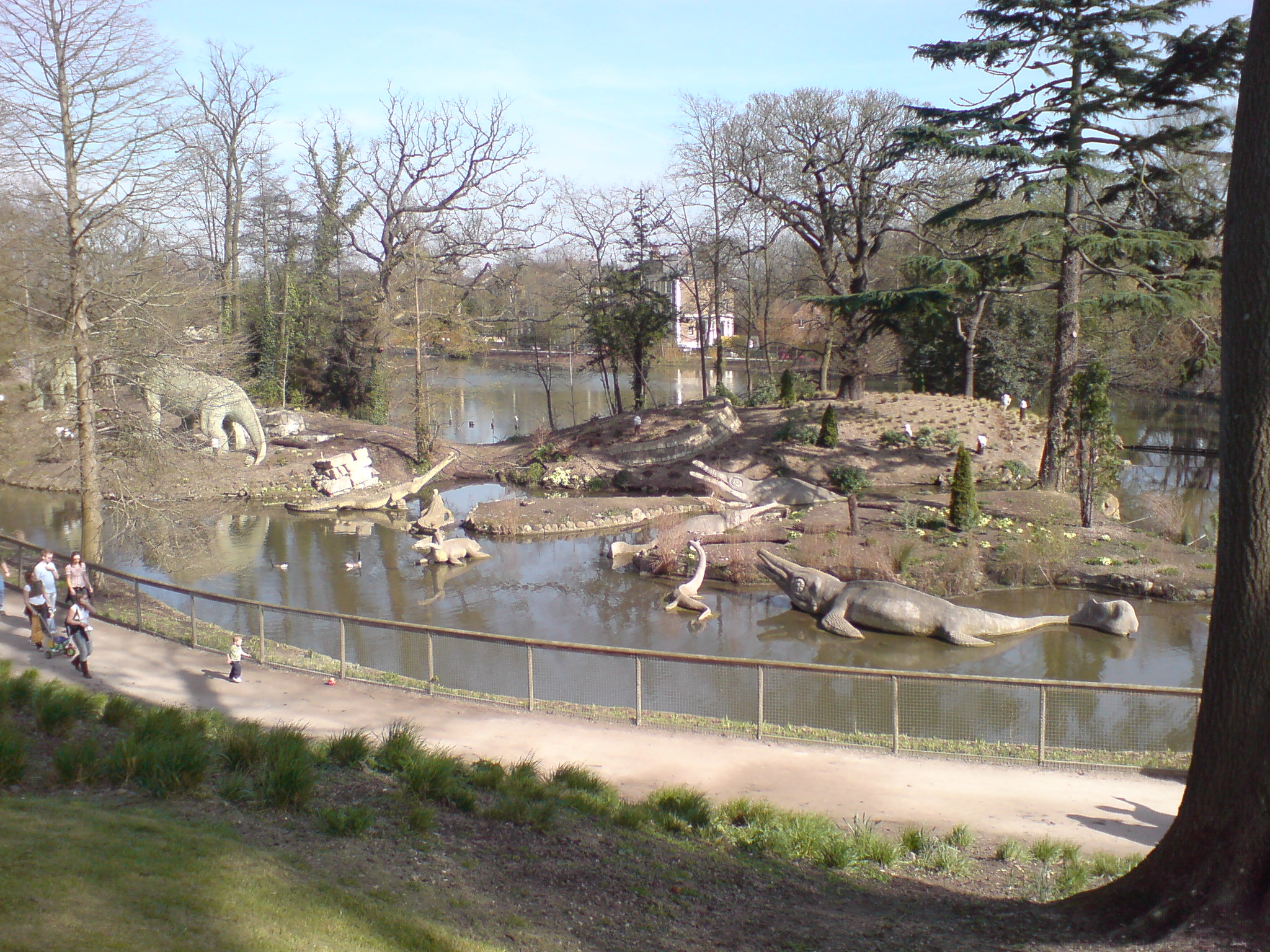 Prehistoric Monsters